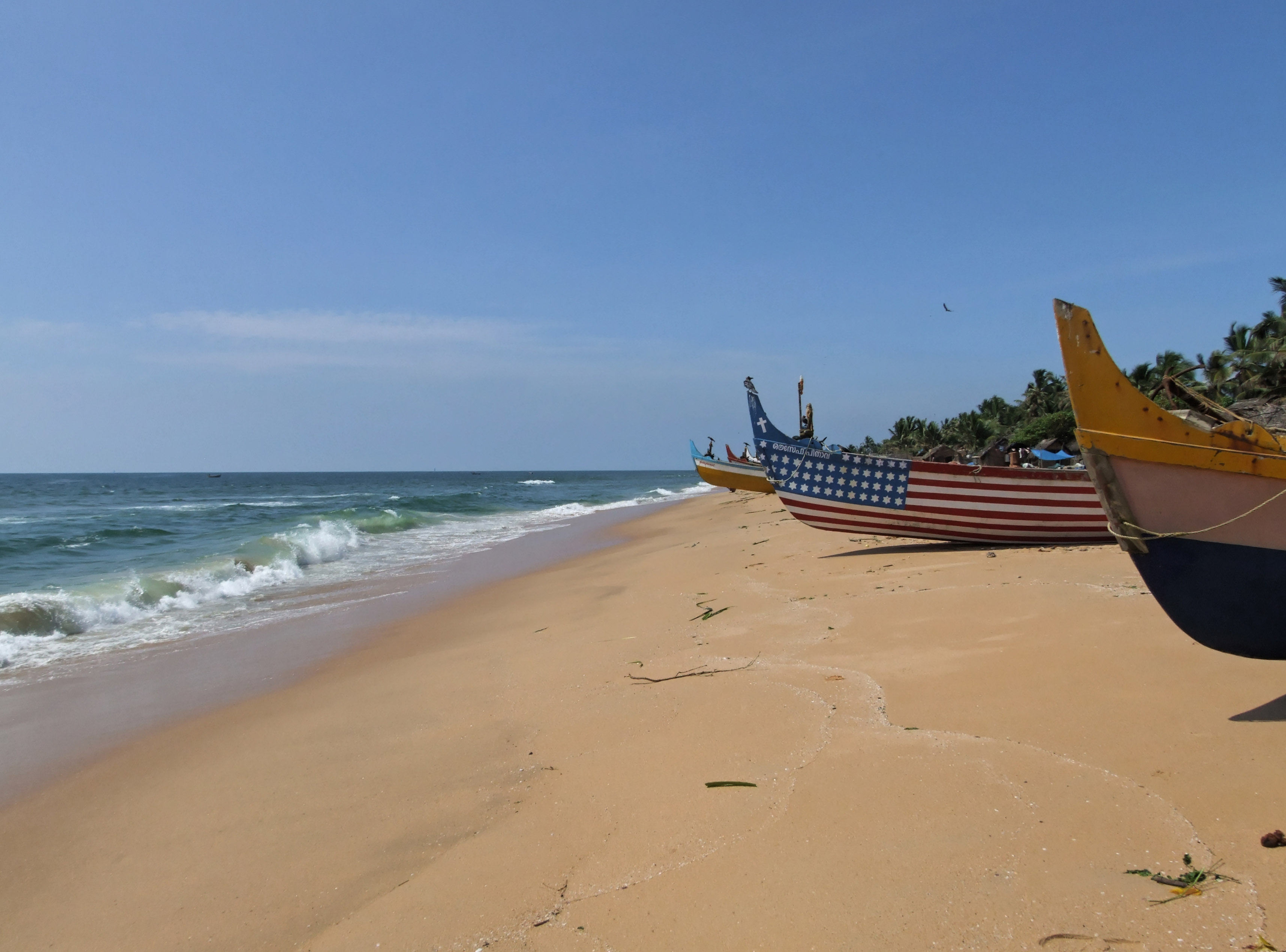 Village of fisherman 10km from Varkala. Beautiful Fort and Lighthouse.